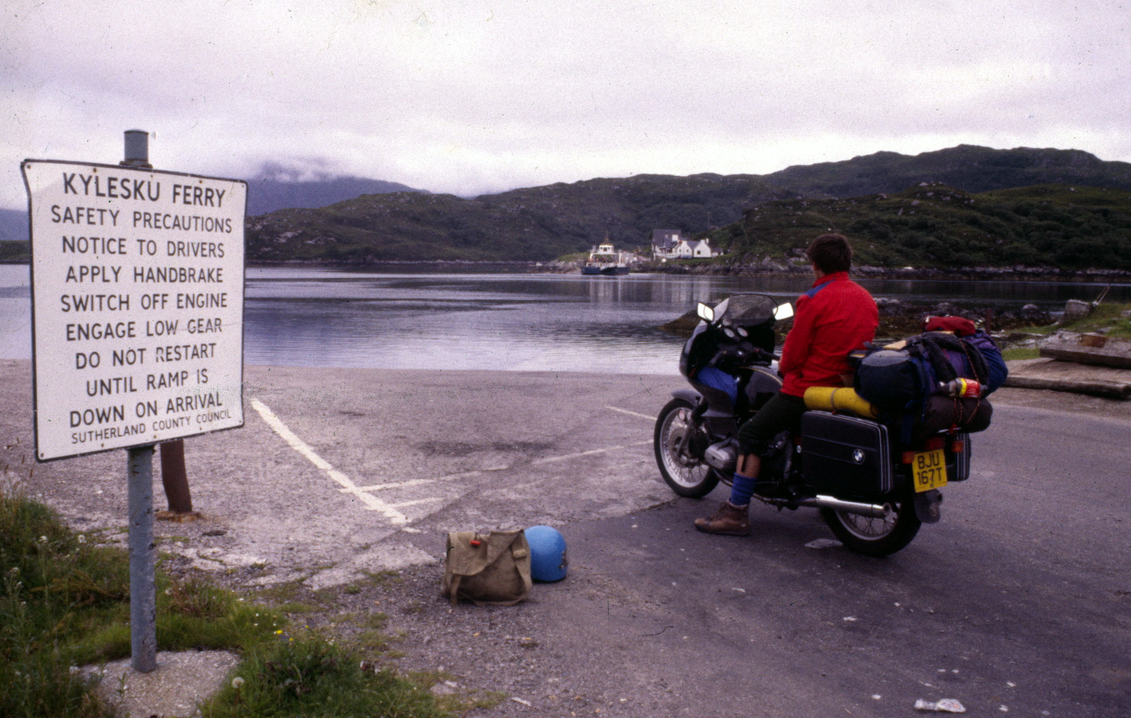 Motorbike rider waiting for the Kylesku Ferry Summer 1984